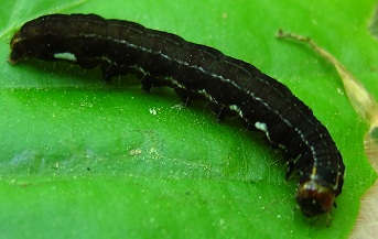 Caterpillar of Eupsilia transversa Location: The Netherlands - Langbroek - Langbroeker Wetering